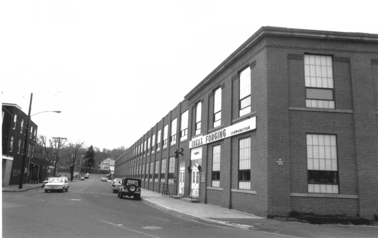 Peck, Stow & Wilcox Factory, Southington, Connecticut. This complex has been demolished.